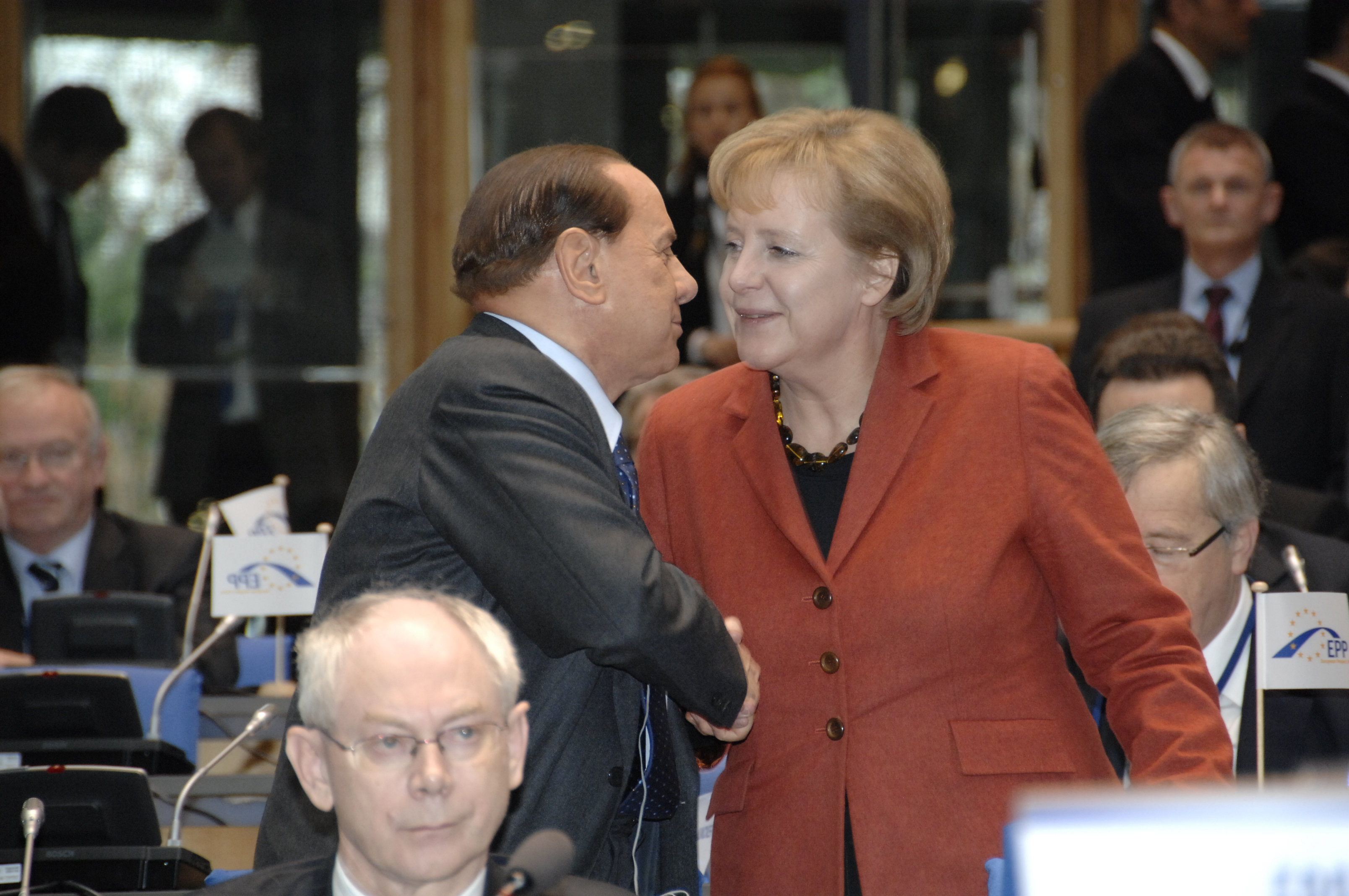 EPP Congress Bonn